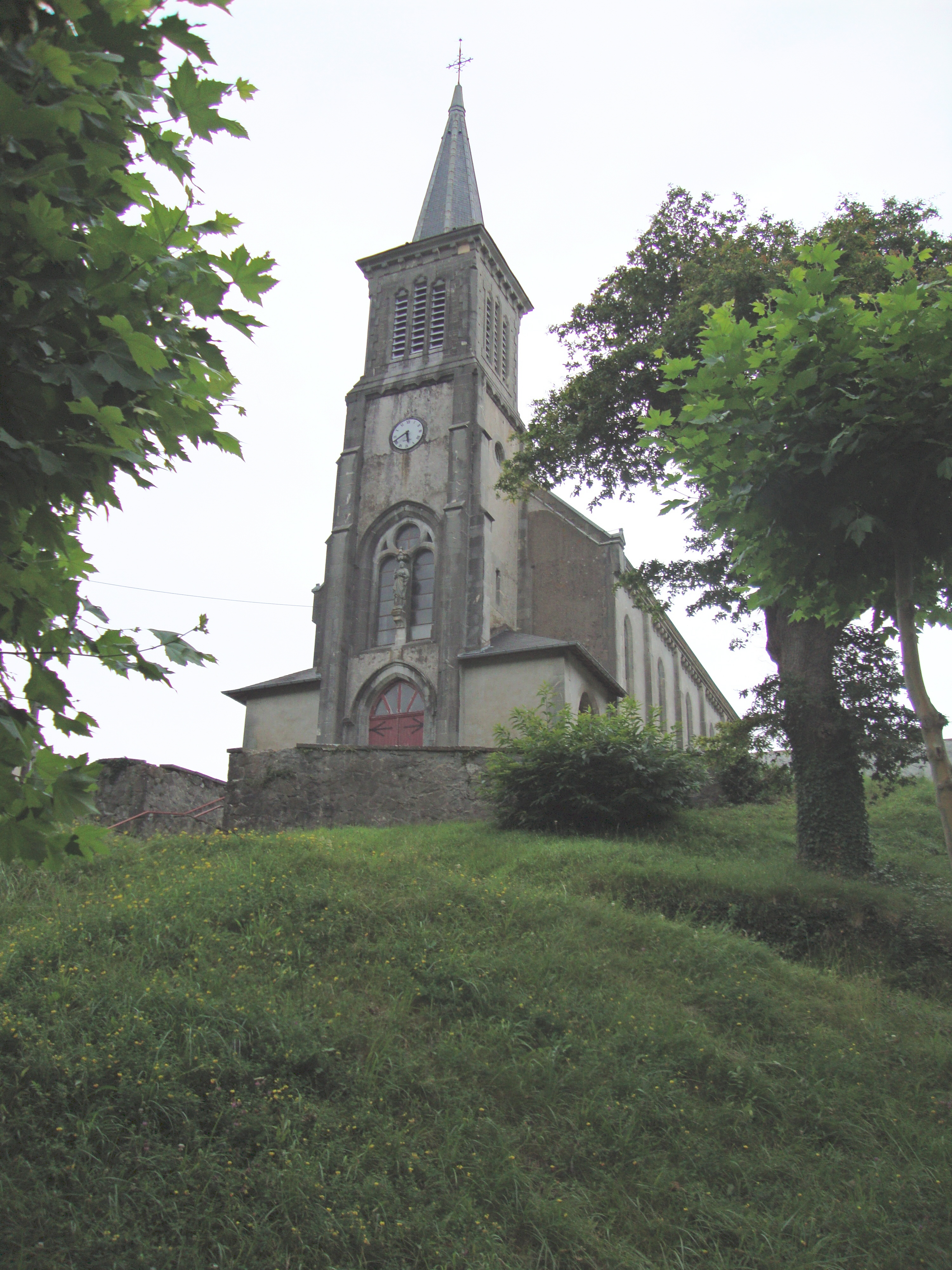 Bonloc (Pyr-Atl, Fr) the church on its hill.